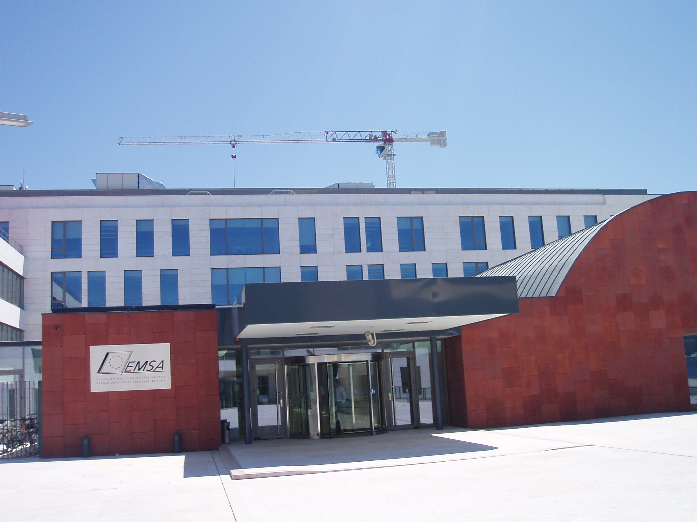 European Maritime Safety Agency (EMSA) building in Lisbon, Portugal.